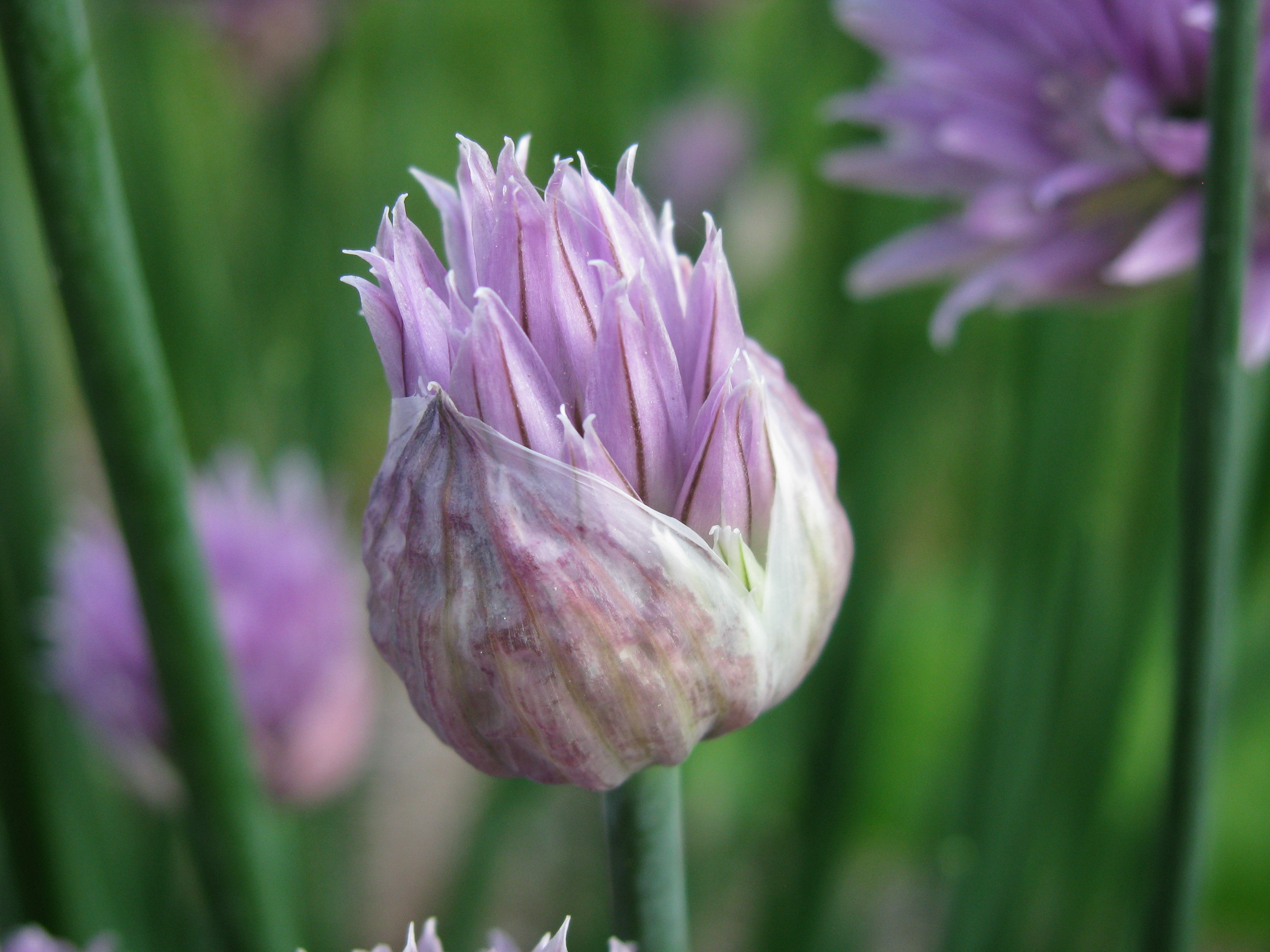 A flower on a Allium schoenoprasum en , commonly know as chives in the process of opening, growing in New Hampshire.